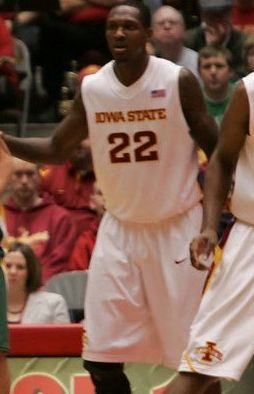 Iowa State vs. North Dakota State